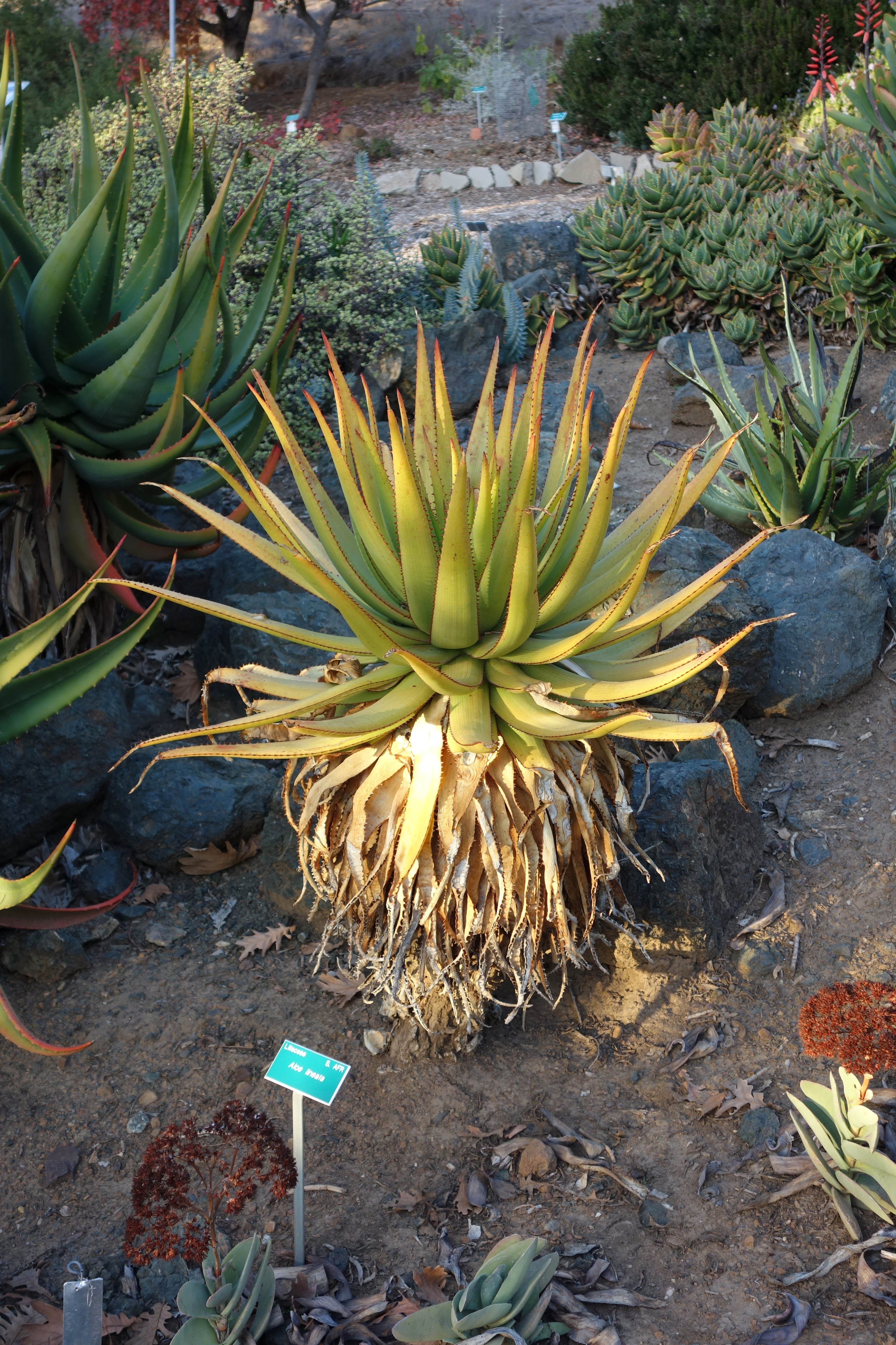 Botanical specimen in the San Luis Obispo Botanical Garden - in El Chorro Regional Park, San Luis Obispo, California, USA.